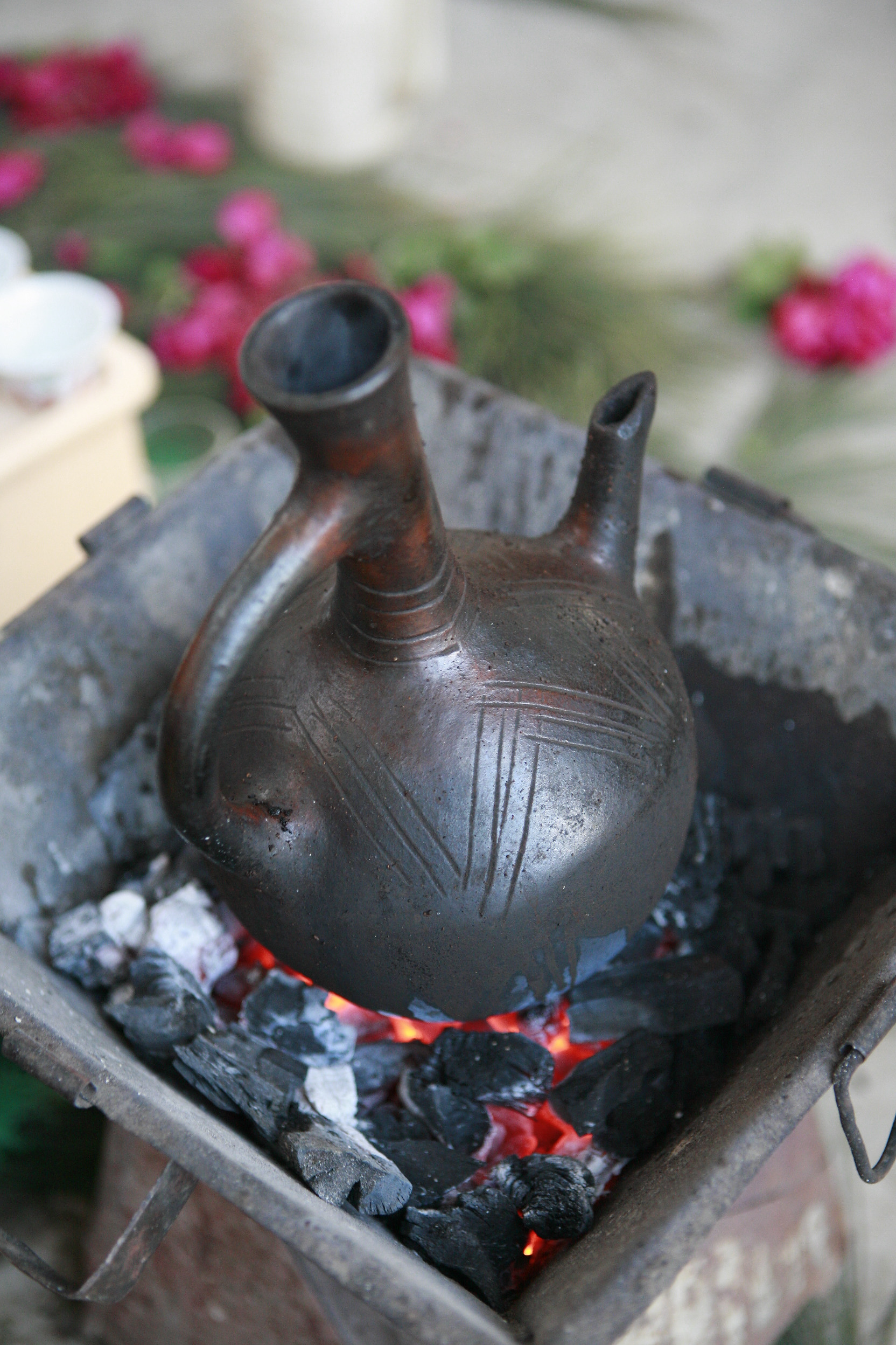 I love these earthenware coffee pots, and sitting right on the coals too ... !